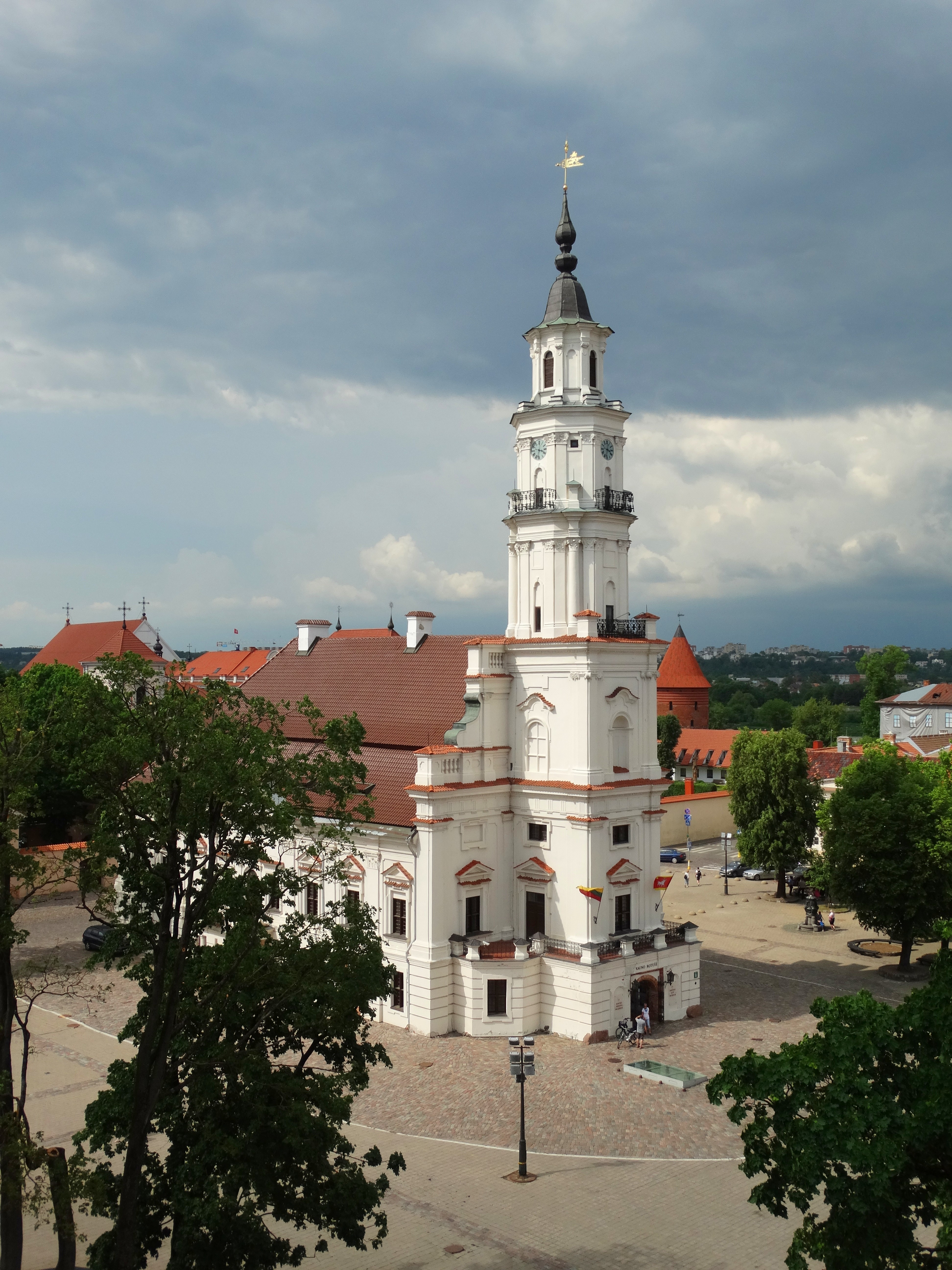 Town hall, Kaunas, Lithuania